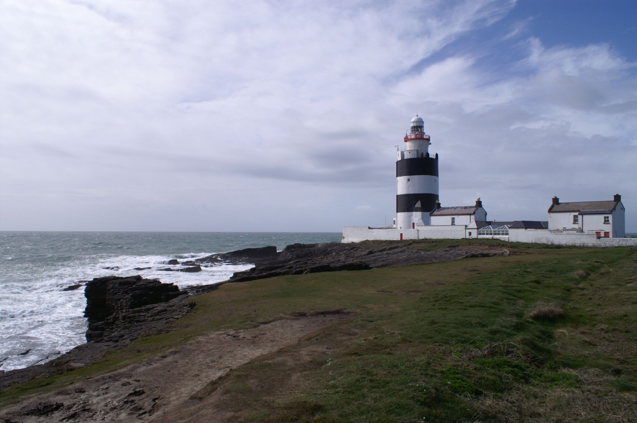 The Hook lighthouse, is one of the oldest lighthouses in Europe having been shining for about 800 years